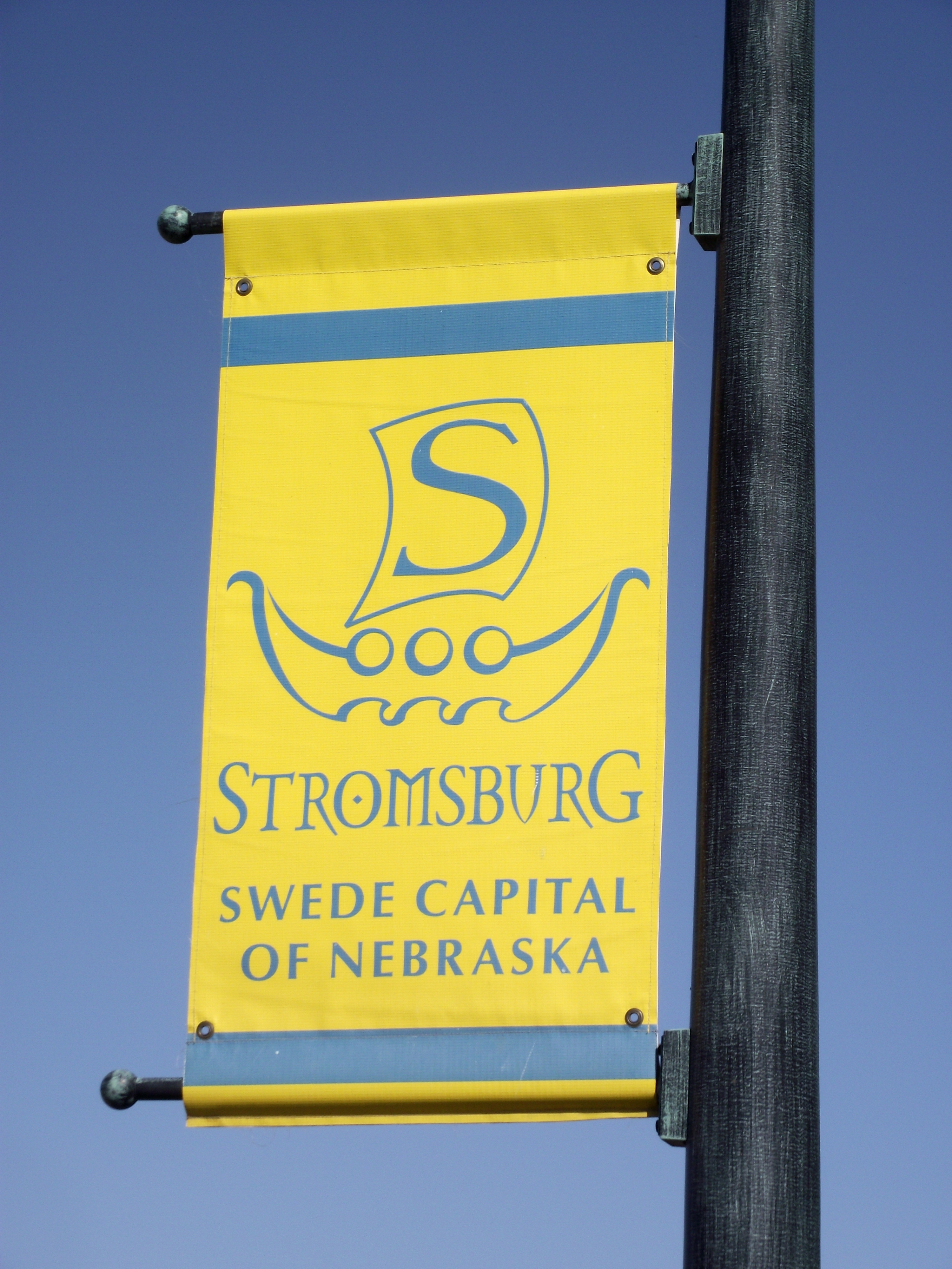 Swede Capital of Nebraska sign